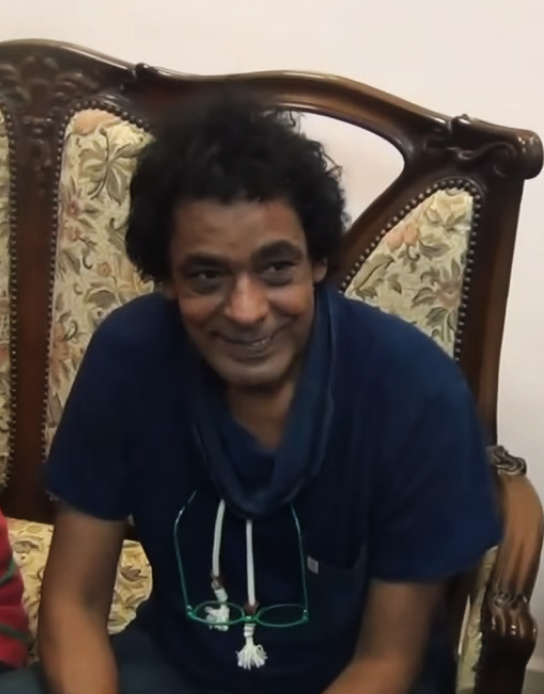 Mohamed Mounir in Aswan 2014